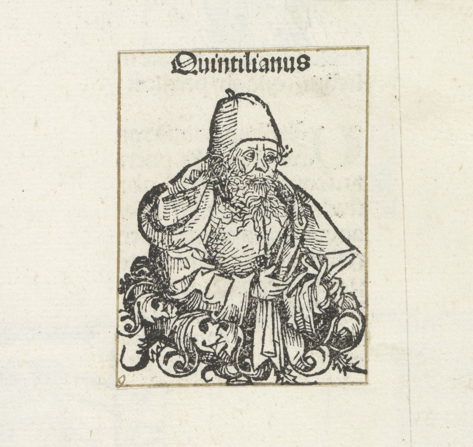 A drawing of Marcus Fabius Quintilianus from the Liber Chronicarum by the workshop of Michel Wolgemut